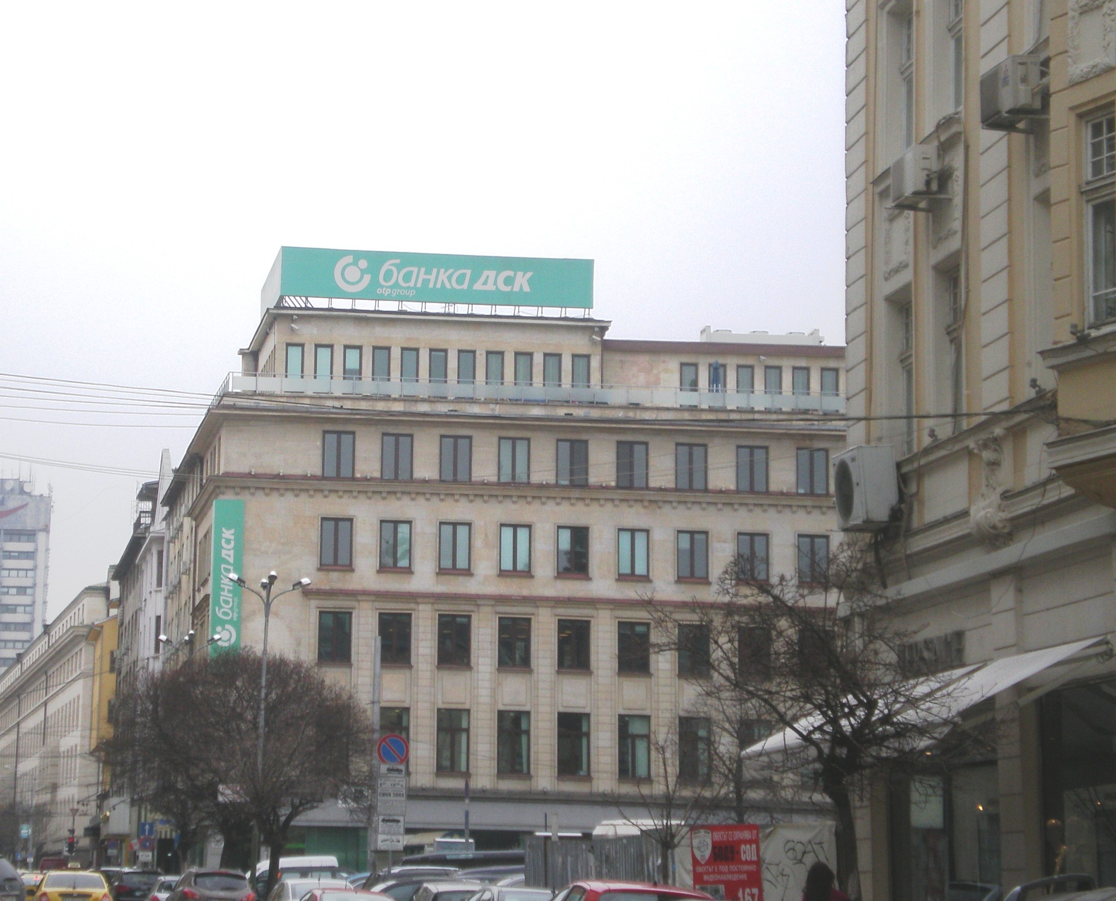 DSK Bank, Kaloyan Branch, Sofia, Bulgaria